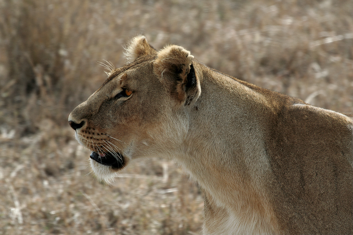 Lion in Serengeti. Taken with Canon 350D, 100-400mm f/4.5-5.6 L IS